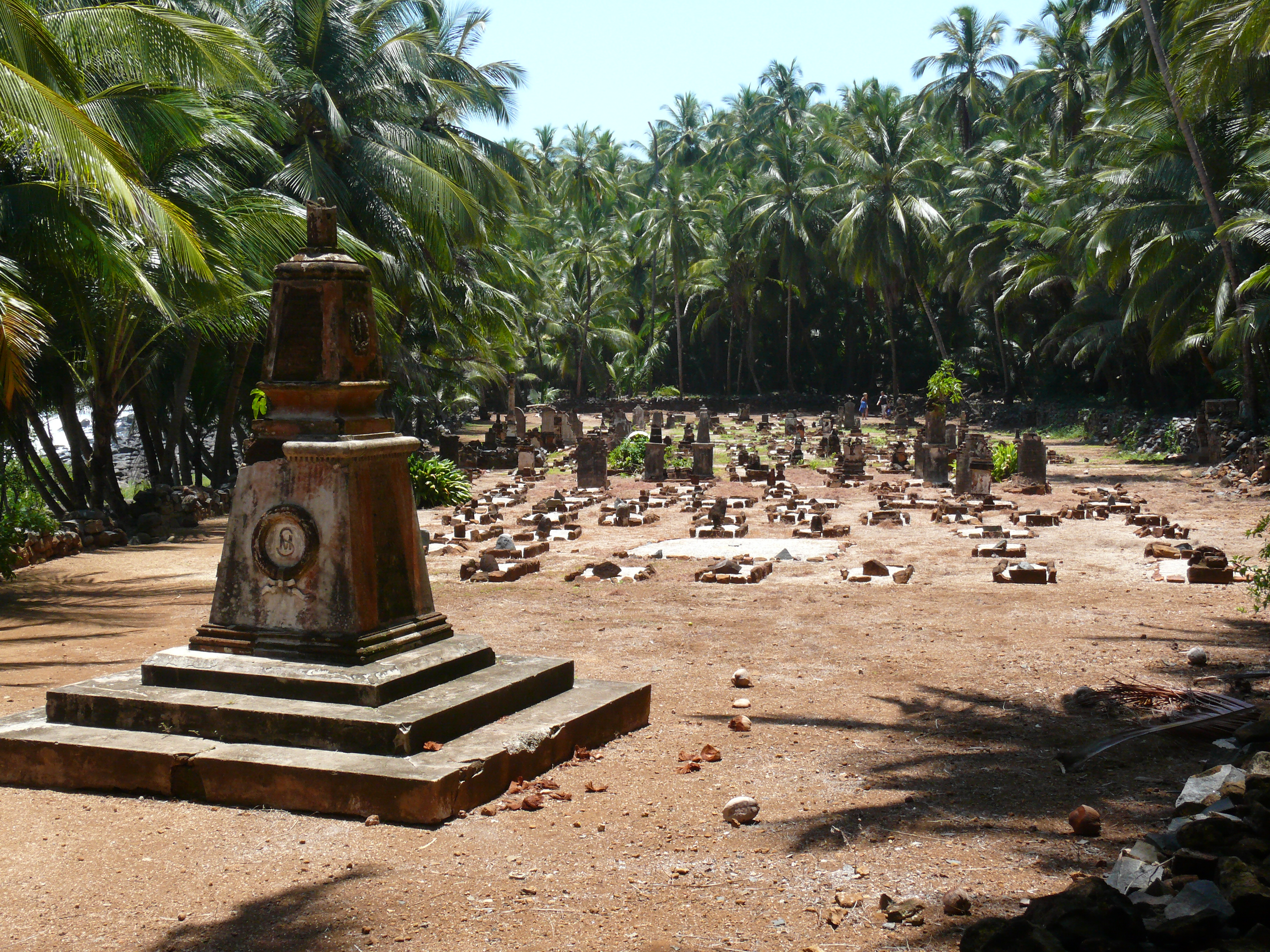 The 220 tombs of guards, doctors and nuns who worked at the prison. Saint Joseph's Island, French Guiana.